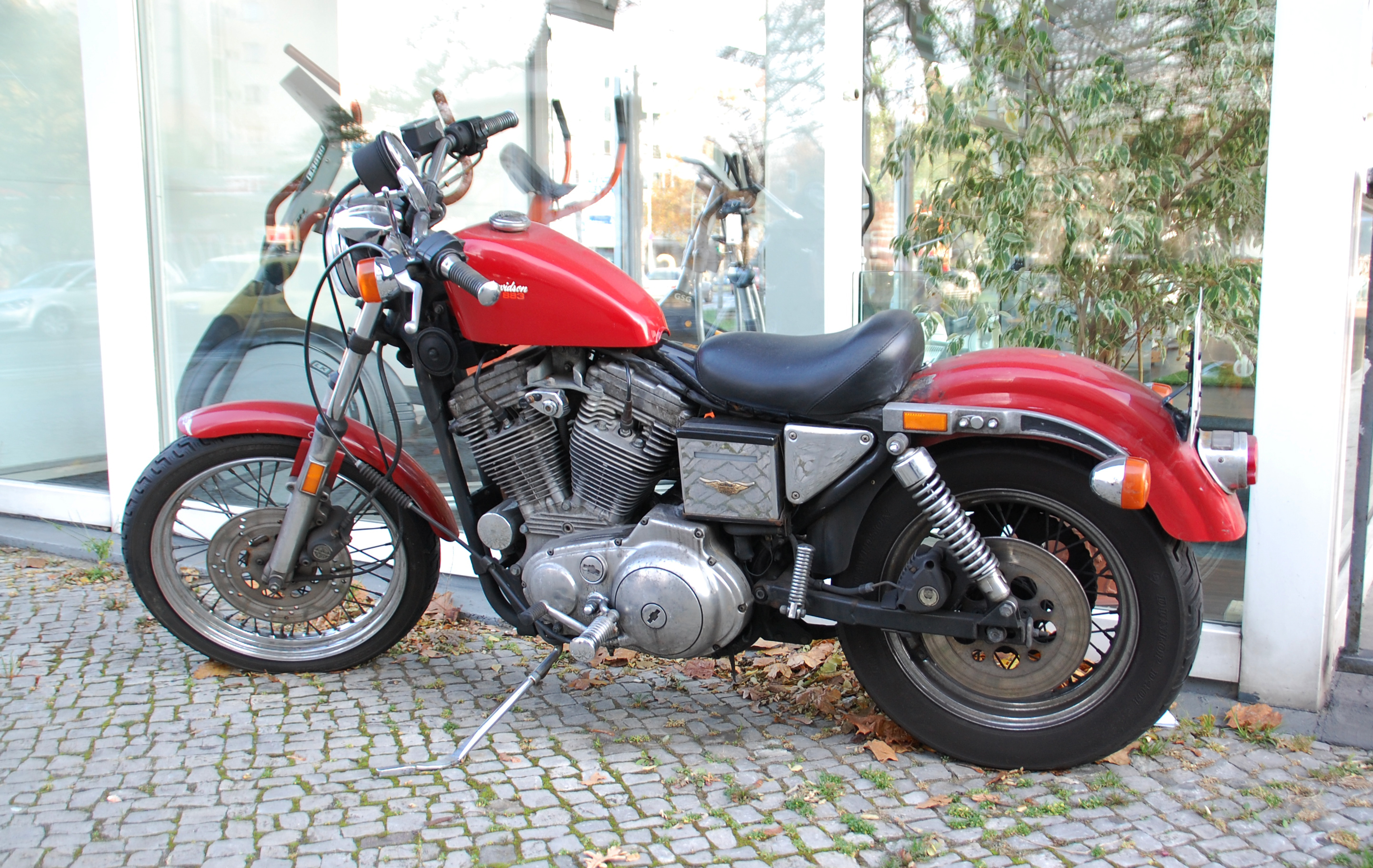 Harley-Davidson Sportster 883 in Berlin 2011